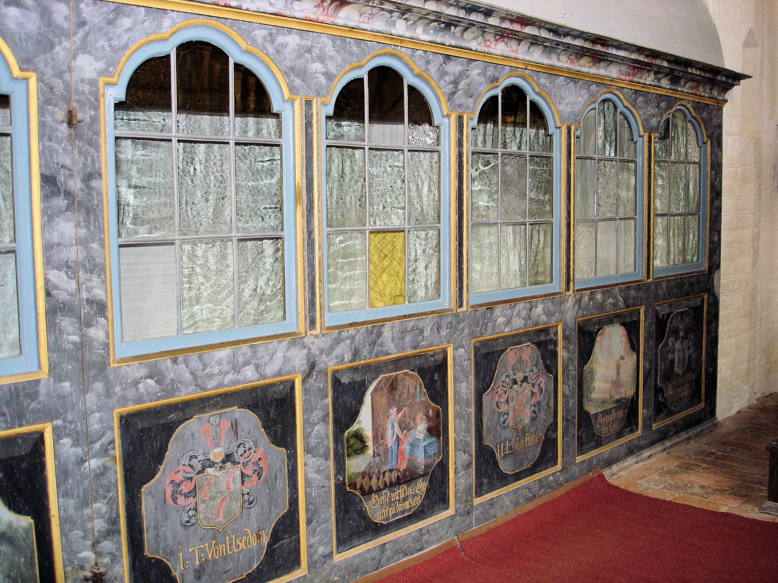 Loge of the patron - Church St. Johannis of Schaprode at Rügen island, Germany